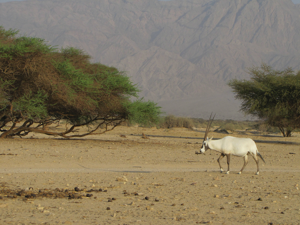 Yotveta Hai-Bar, Wildlife and Plants of Israel